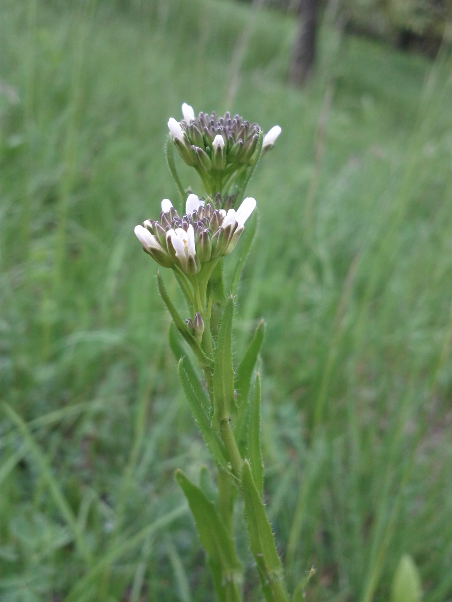 Florescences Taxon: Arabis sagittata (sensu Fischer et al. EfÖLS 2008 ISBN 978-3-85474-187-9) Location: at border of Rohrwald, borough of Niederhollabrunn, district Korneuburg, Lower Austria - ca. 320 m a.s.l. Habitat: poor grassland